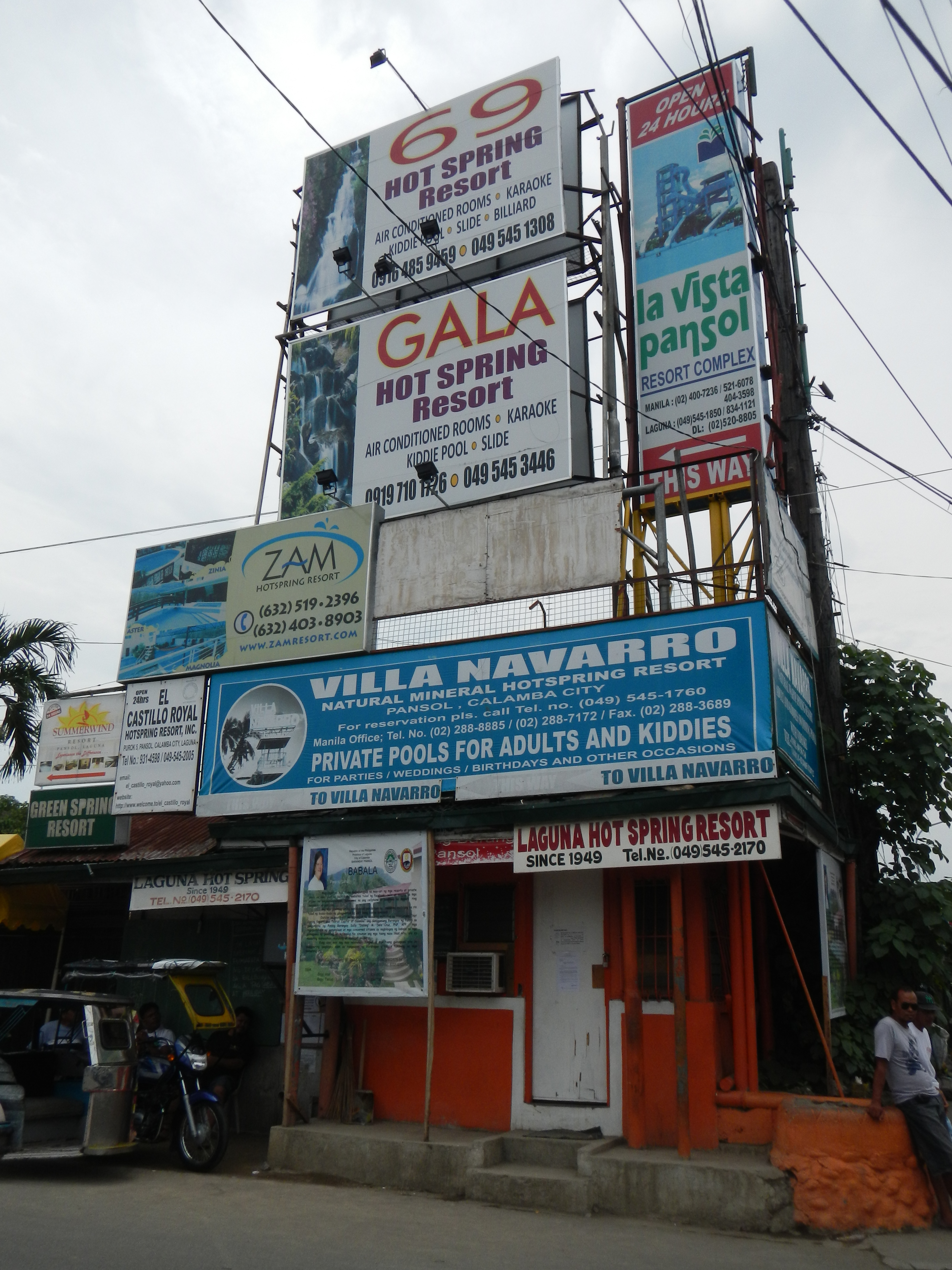 National Highway, Barangay Pansol, [1] Coordinates: 14°10'29"N 121°10'47"E [2] Geographical location: Laguna, Region 4, Philippines, Asia Geographical coordinates: 14° 10' 53" North, 121° 11' 9" East This place is situated in Laguna, Region 4, Philippines, its geographical coordinates are 14° 10' 53" North, 121° 11' 9" East and its original name (with diacritics) is Pansol. -- Calamba City[3]